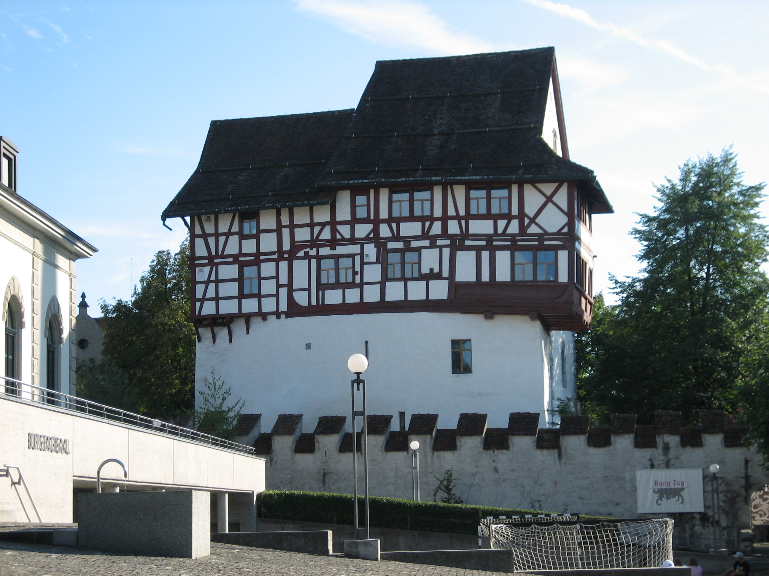 Burg Zug in Zug, Schweiz